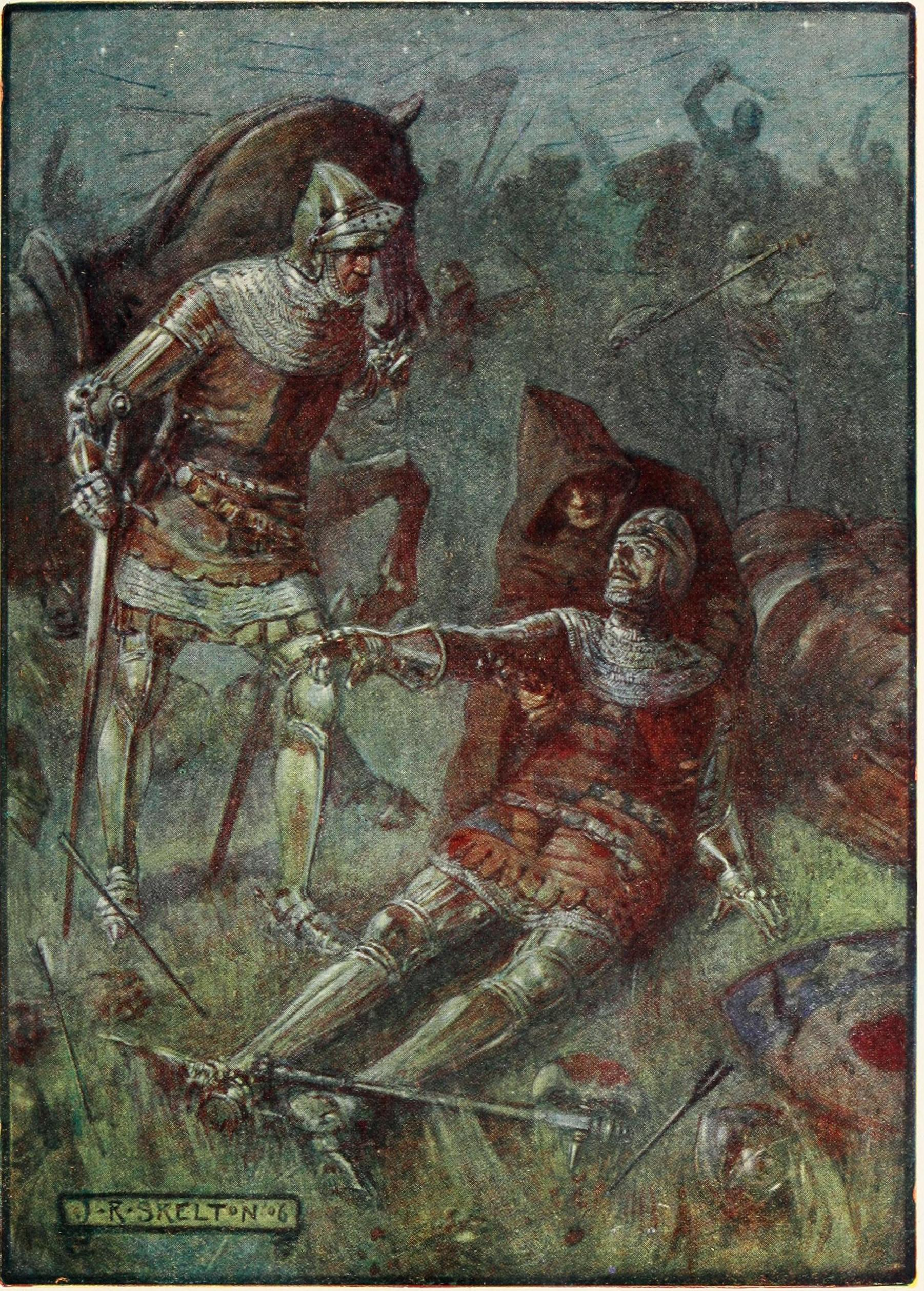 Scotland's story : a history of Scotland for boys and girls by Marshall, H. E. (Henrietta Elizabeth), b. 1876 Published 1907 SHOW MORE List of Kings from Duncan I.: p. 419-421 Publisher London : T.C. & E.C. Jack Pages 496 Possible copyright status NOT_IN_COPYRIGHT Language English Digitizing sponsor MSN Book contributor New York Public Library Collection newyorkpubliclibrary; americana Full catalog record MARCXML [Open Library icon]This book has an editable web page on Open Library.